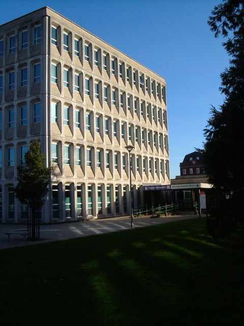 Civic Centre, Exeter The Exeter council offices in Dix's Field, built in 1965-72 - it took seven years? "A clumsy affair" say Cherry and Pevsner, but here doing its best to look interesting by reflecting sunlight from its windows onto the lawn.